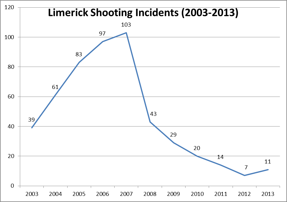 A graph of reported firearm incidents in Limerick over the 10 year period 2003-2013